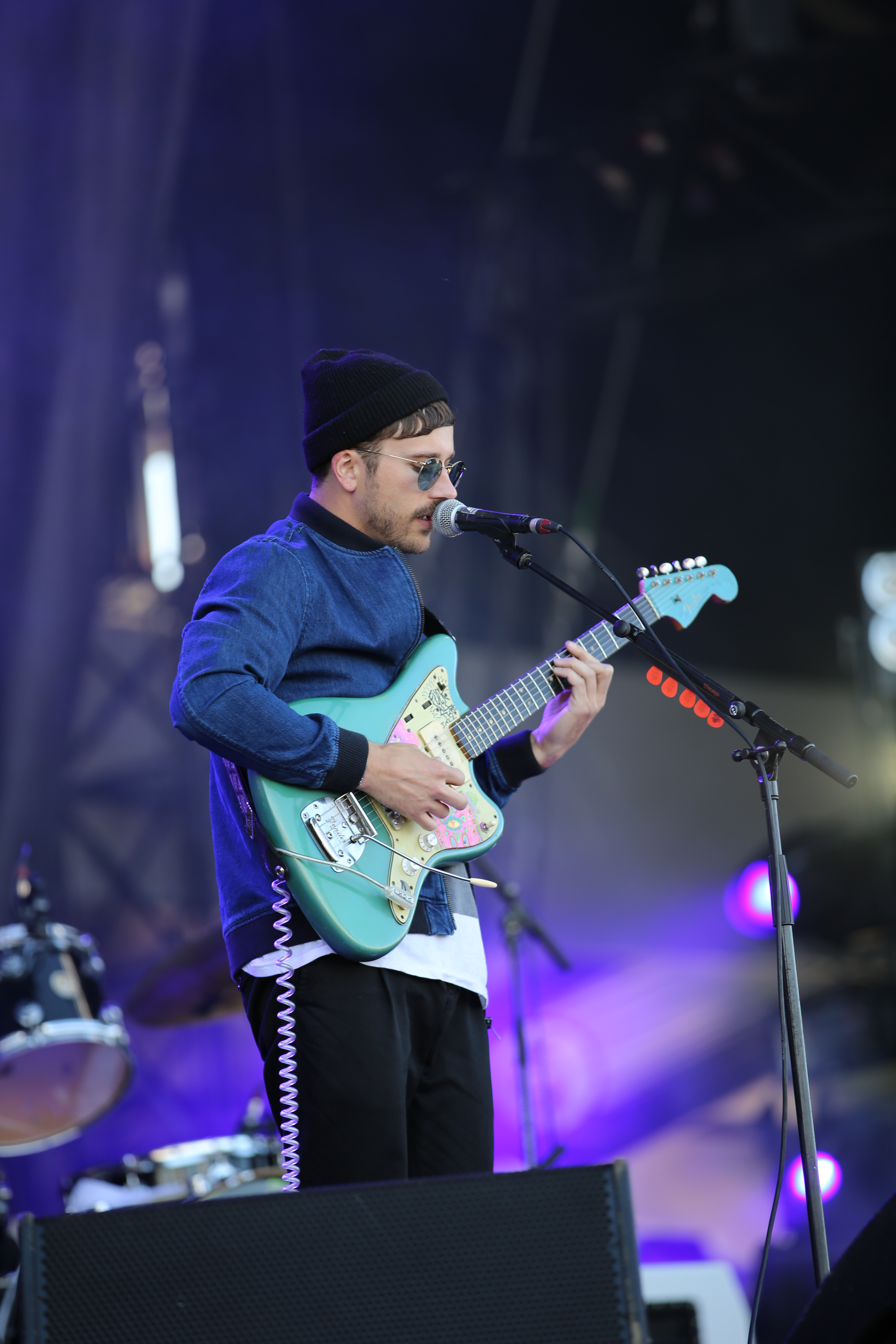 Portugal The Man bei Rock am Ring 2014.